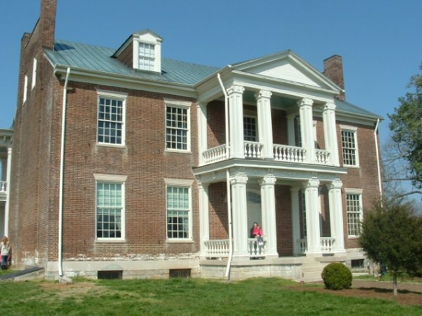 Front façade of Carnton Plantation